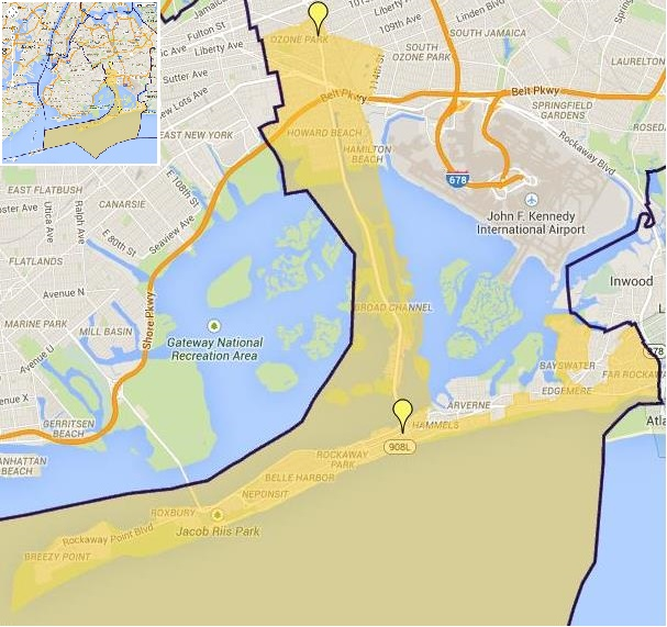 New York State Assembly District 23 (with inset2)